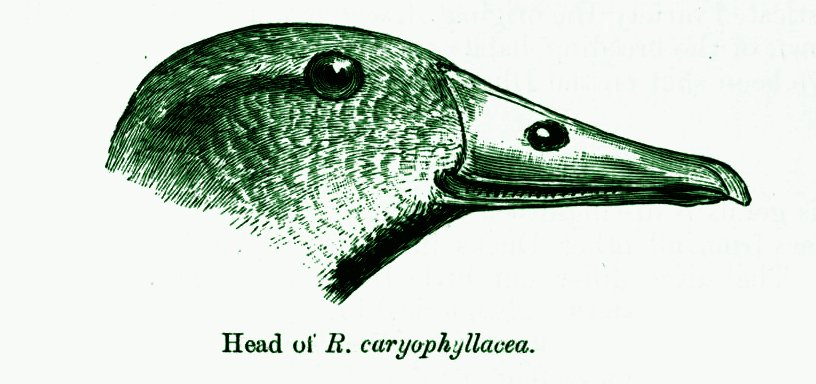 Head of Rhodonessa caryophyllacea